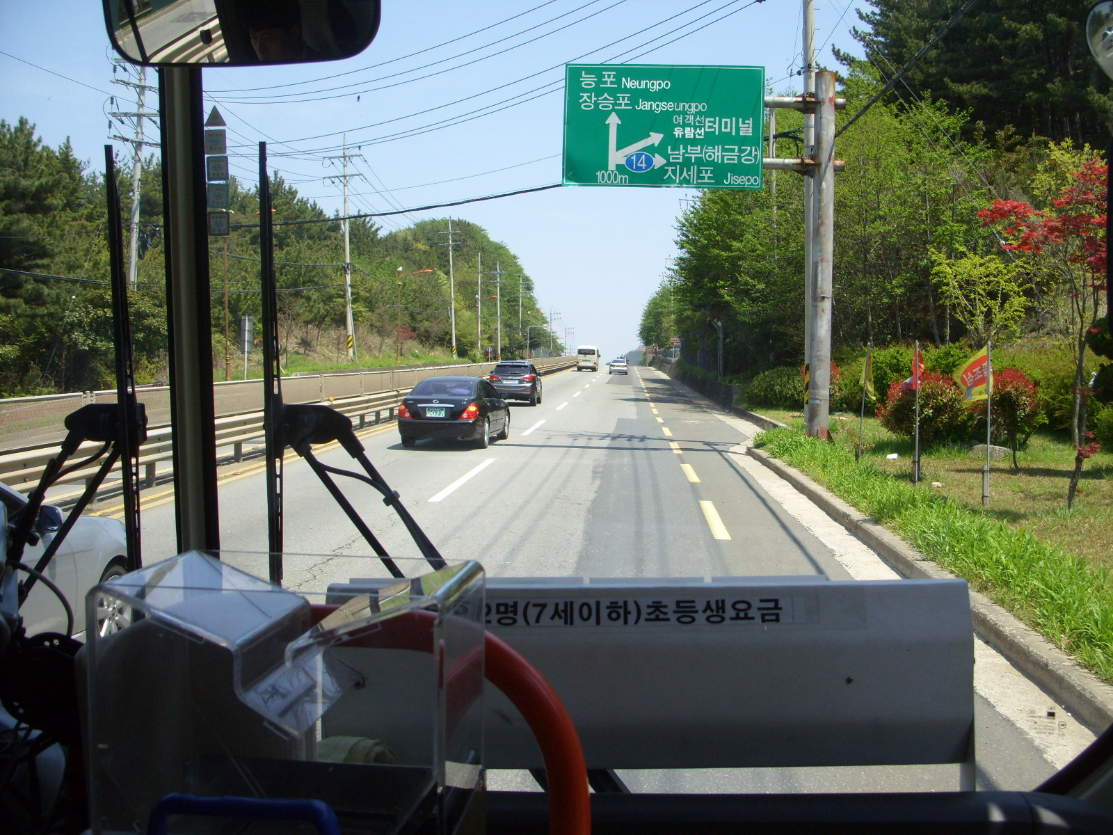 Geojedaero in Jangseungpo, Geojedo Island, Korea